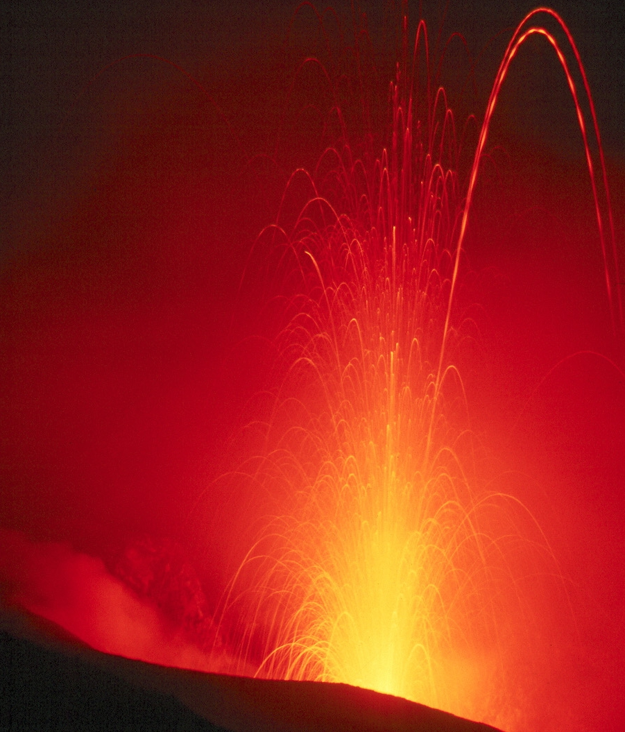 Eruption of Stromboli (Isole Eolie/Italia), ca. 100m (300ft) vertically. Exposure of several seconds. The dashed trajectories are the result of lava pieces with a bright hot side and a cool dark side rotating in mid-air.